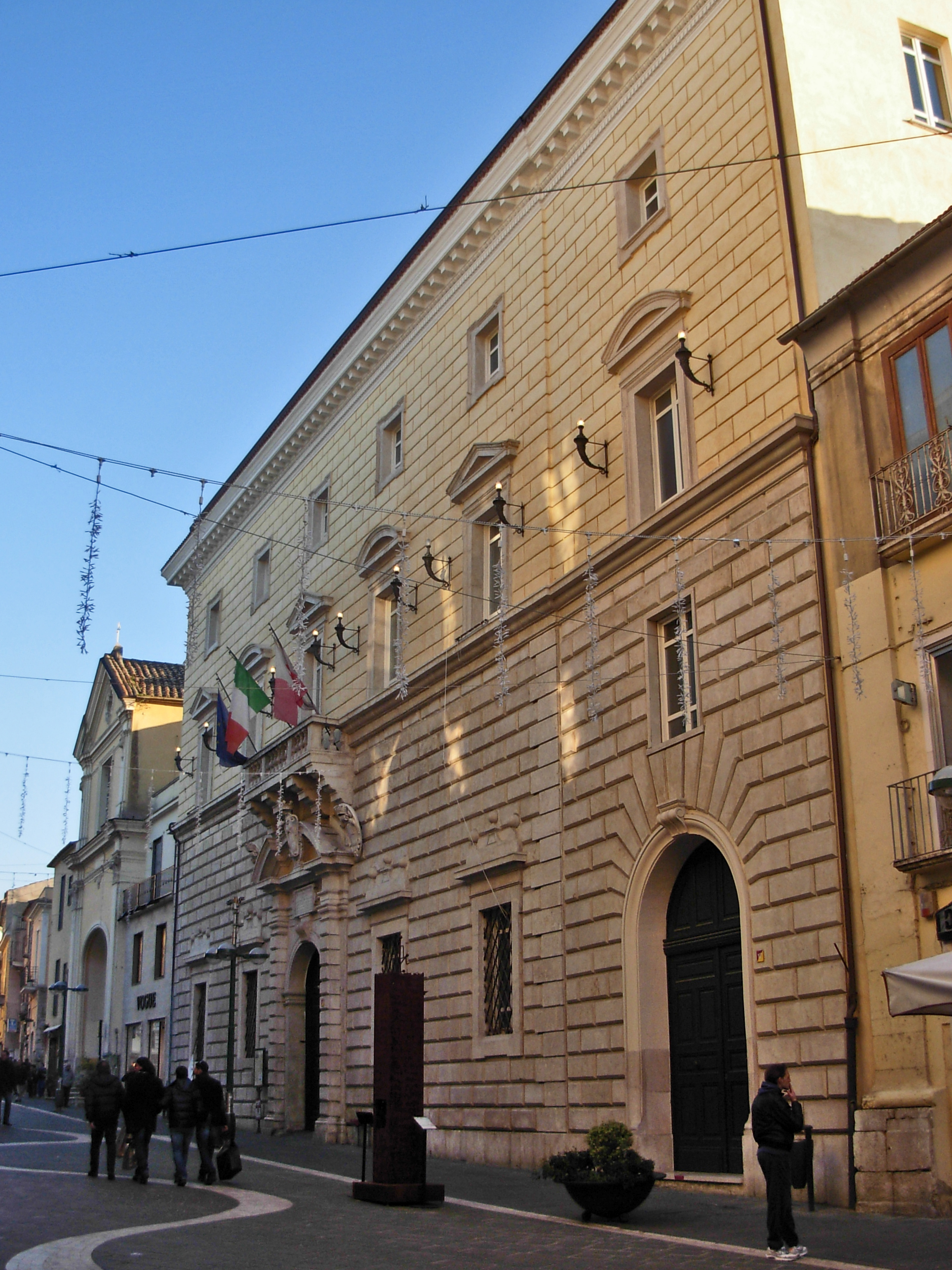 Palazzo Paolo V in Benevento, Italy, namely the first seat of the town council.